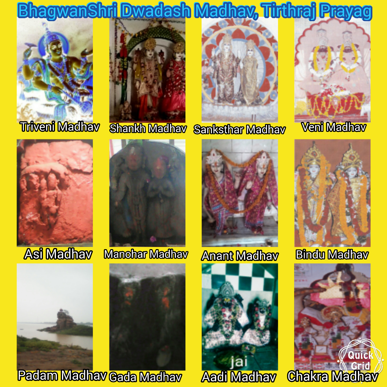 Dwadash Madhav are the 12 Madhav and known as chief deity or nagar devata of Tirthraj Prayag.